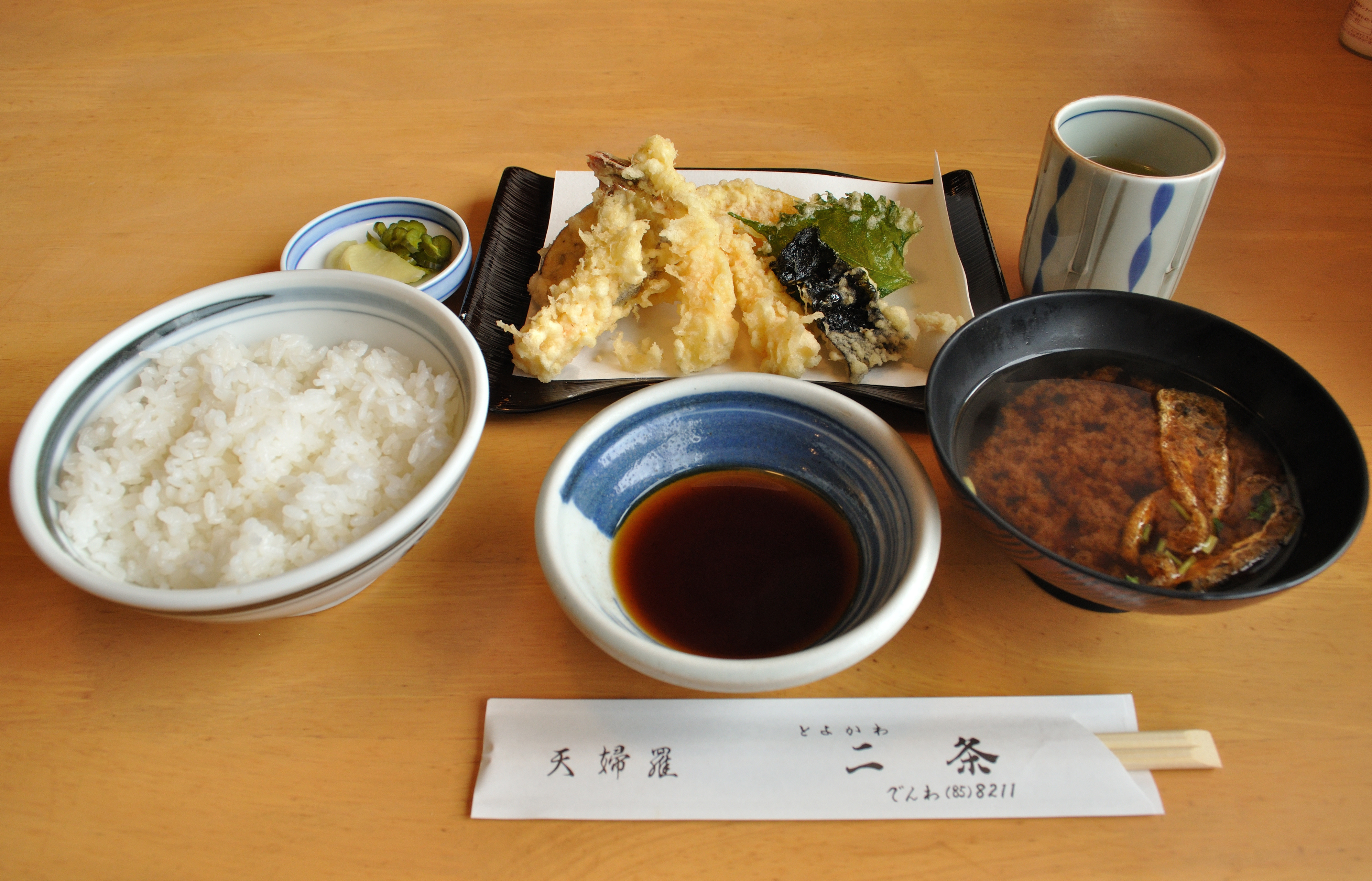 Typical sample of Tempura set meal.